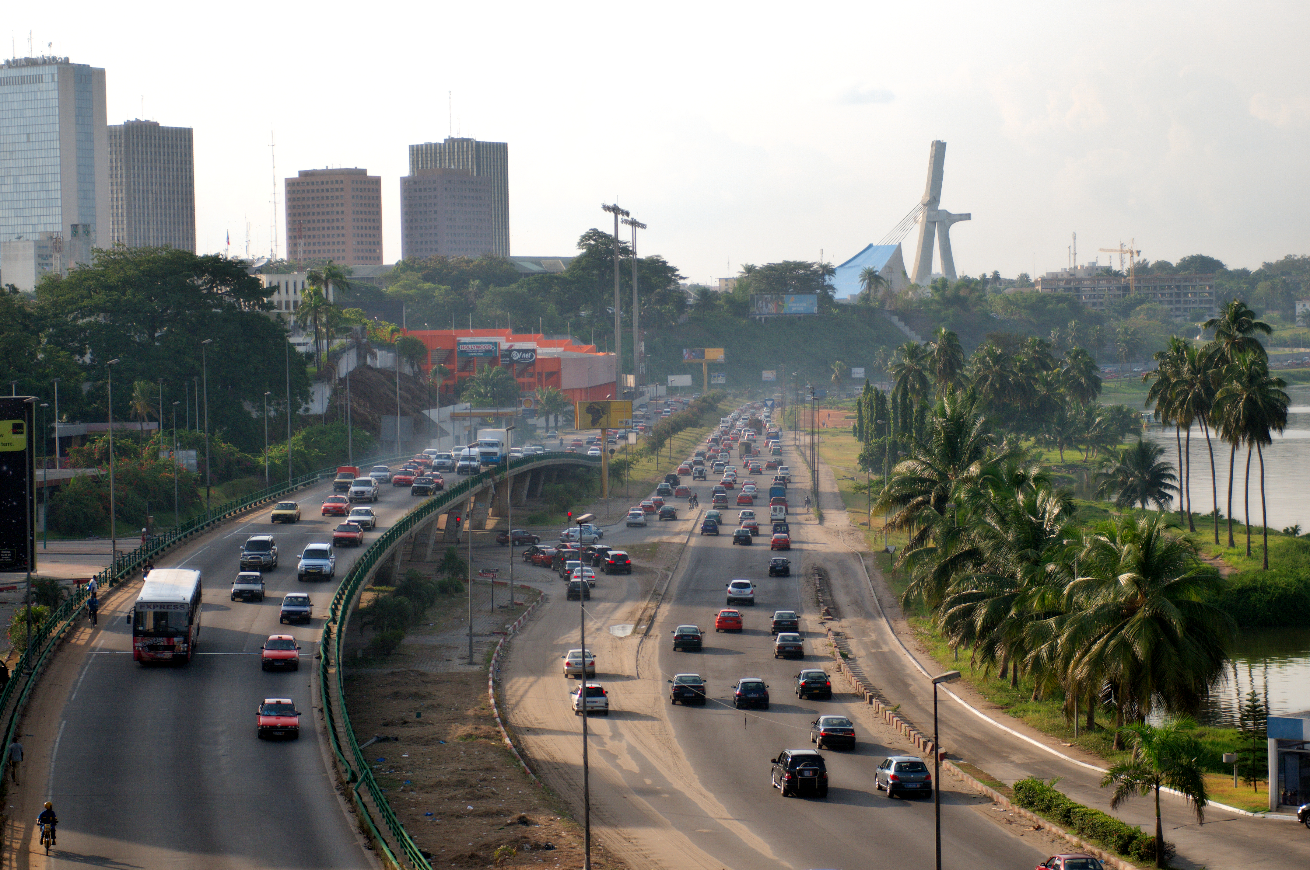 Trafic on the De Gaulle boulevard, in the Plateau district of Abidjan, with the Saint-Paul cathedral in the background.